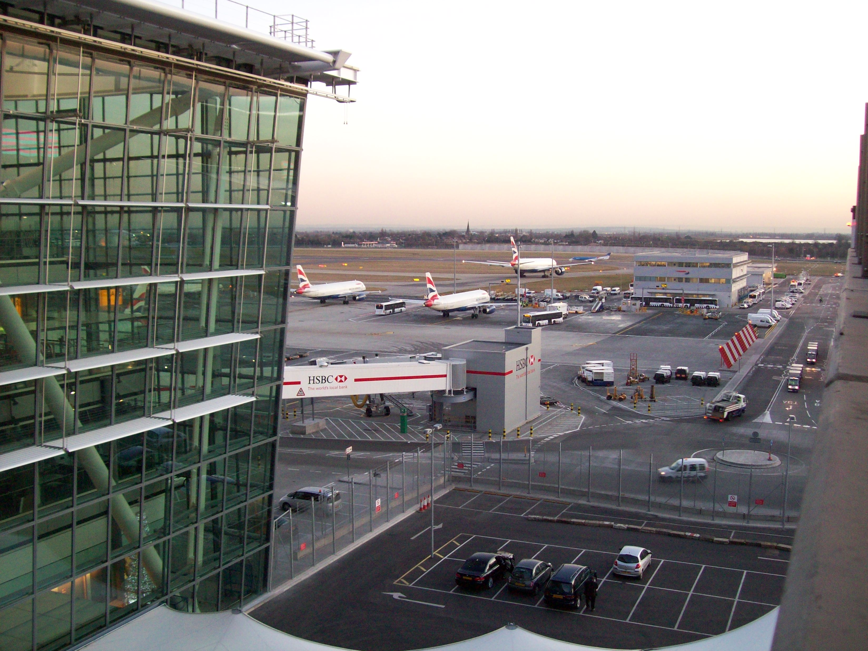 Heathrow Terminal 5A building exterior and apron view, looking towards runway 9R holding point - picture taken from car drop-off point